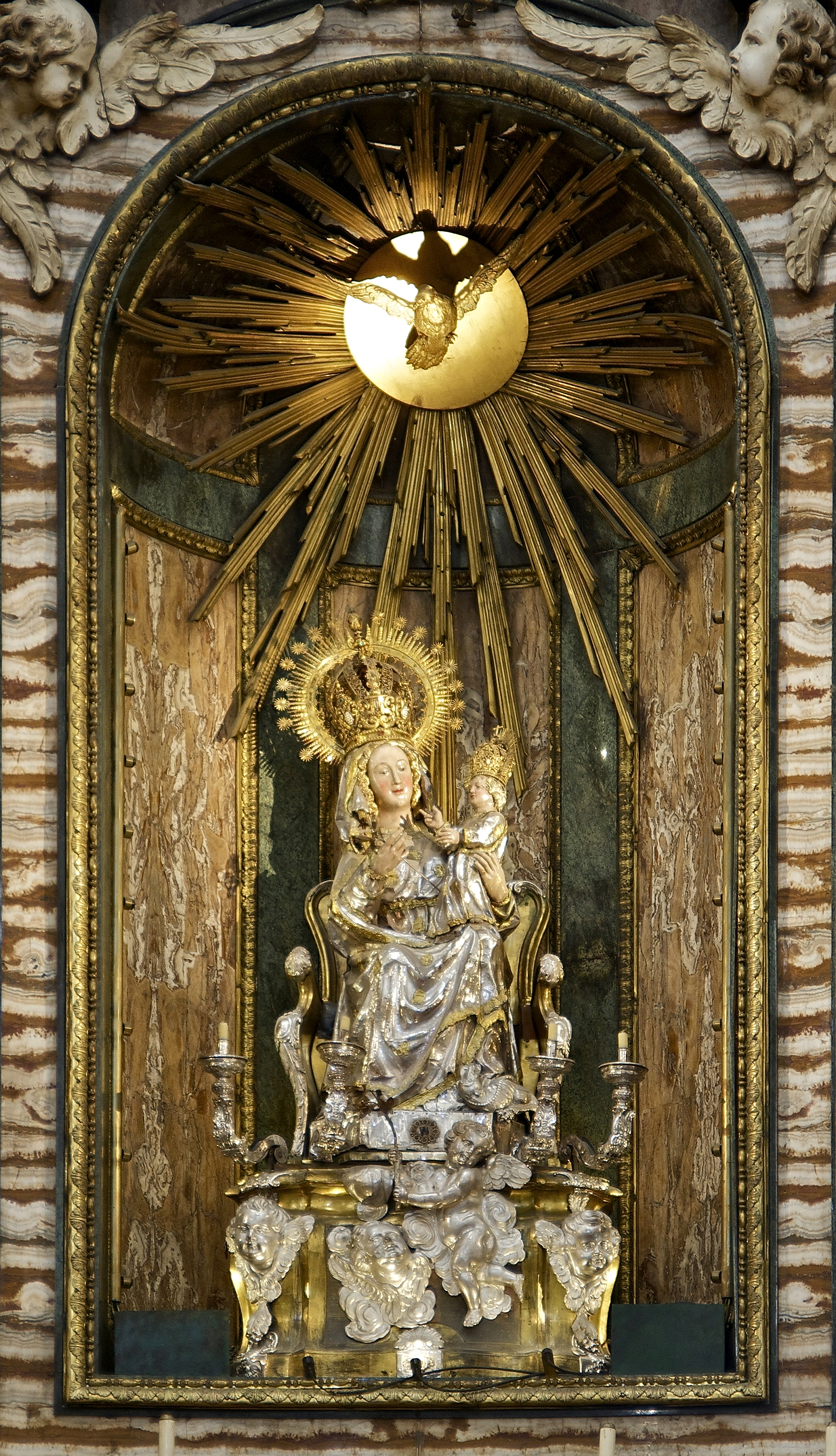 The Virgin of Peace, central detail of the altarpiece above the main altar of the cathedral of Segovia, Spain. 1775